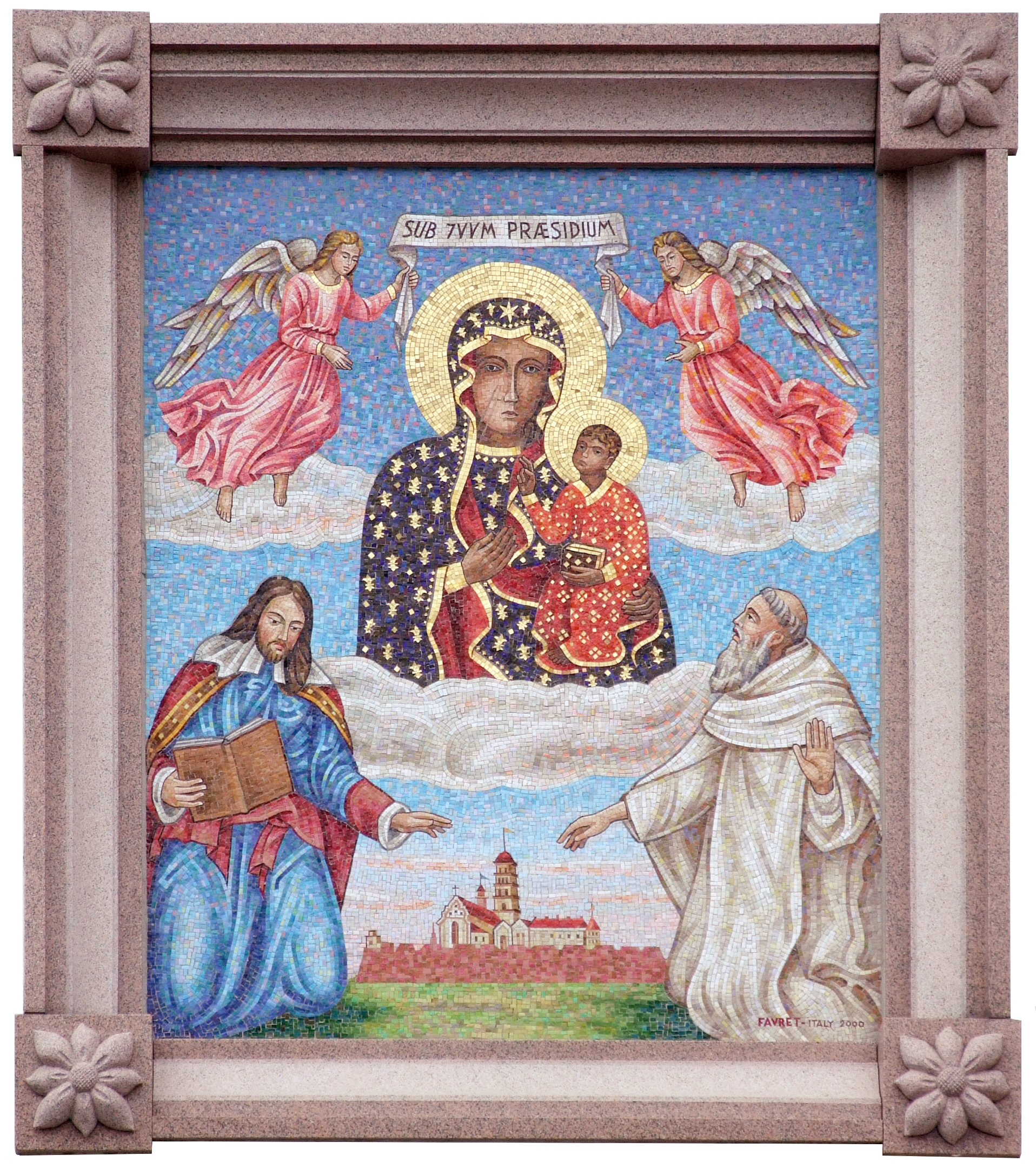 Mosaic in Jasna Góra, Częstochowa.